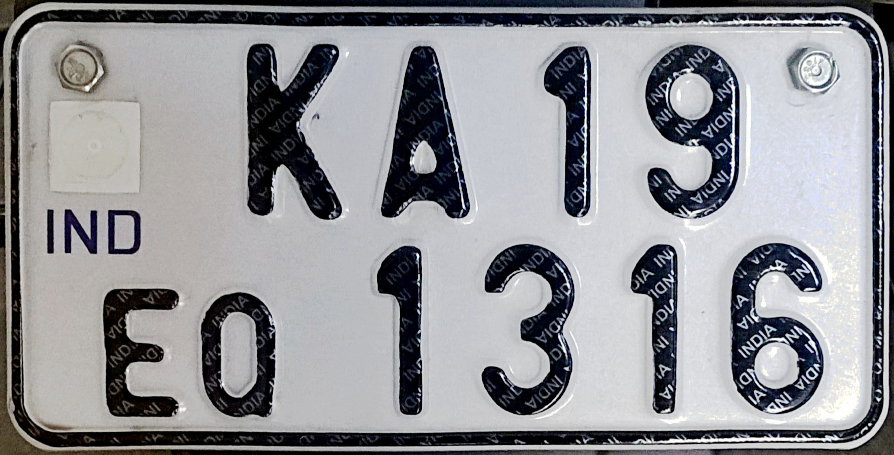 Close up of a licence plate used in Mangalore, Karnataka